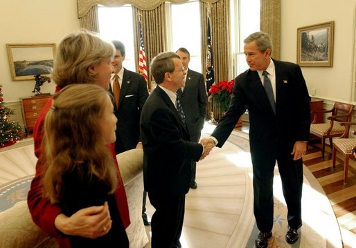 President George W. Bush congratulates Senator Mike DeWine, R-Ohio, on S. 650, the Pediatric Equity Research Act of 2003, in the Oval Office Tuesday, Dec. 16, 2003. Senator DeWine's daughter and wife, Fran, are pictured at the left. Also pictured are Senator Bill Frist, R-Tenn., left, and Health and Human Services Secretary Tommy Thompson. The act gives the Food and Drug Administration the authority to require drug companies to conduct safety tests on pharmaceuticals that are to be administered to children. The President signed the bill into law Dec. 3, 2003.